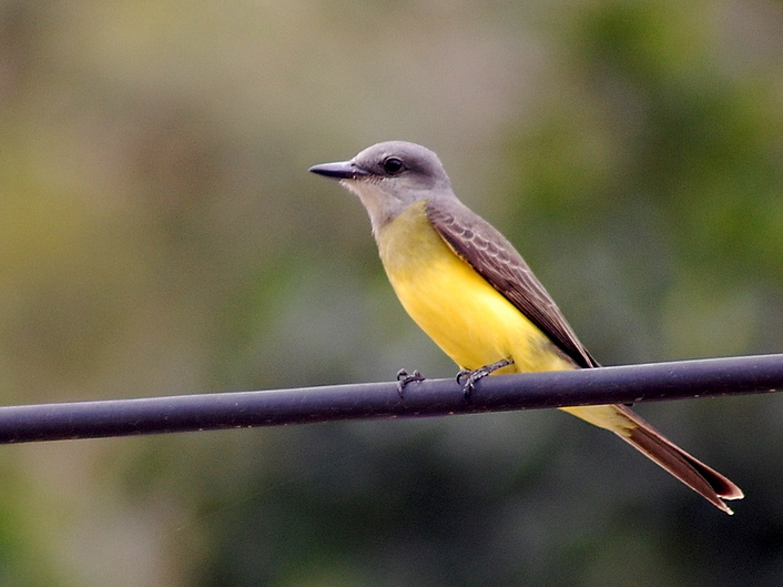 White-throated Kingbird (Tyrannus albogularis) Vila do Abraão, Ilha Grande-RJ